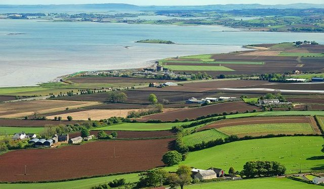 The view from Scrabo (5). See 1295615. The view to the south south-east with some pladdies visible in Strangford Lough. The causeway to Rough Island 1042730 and the island 775703 can be seen at upper right. Ignoring the waters of the lough, this is the "patchwork landscape". Continue to 1295720.